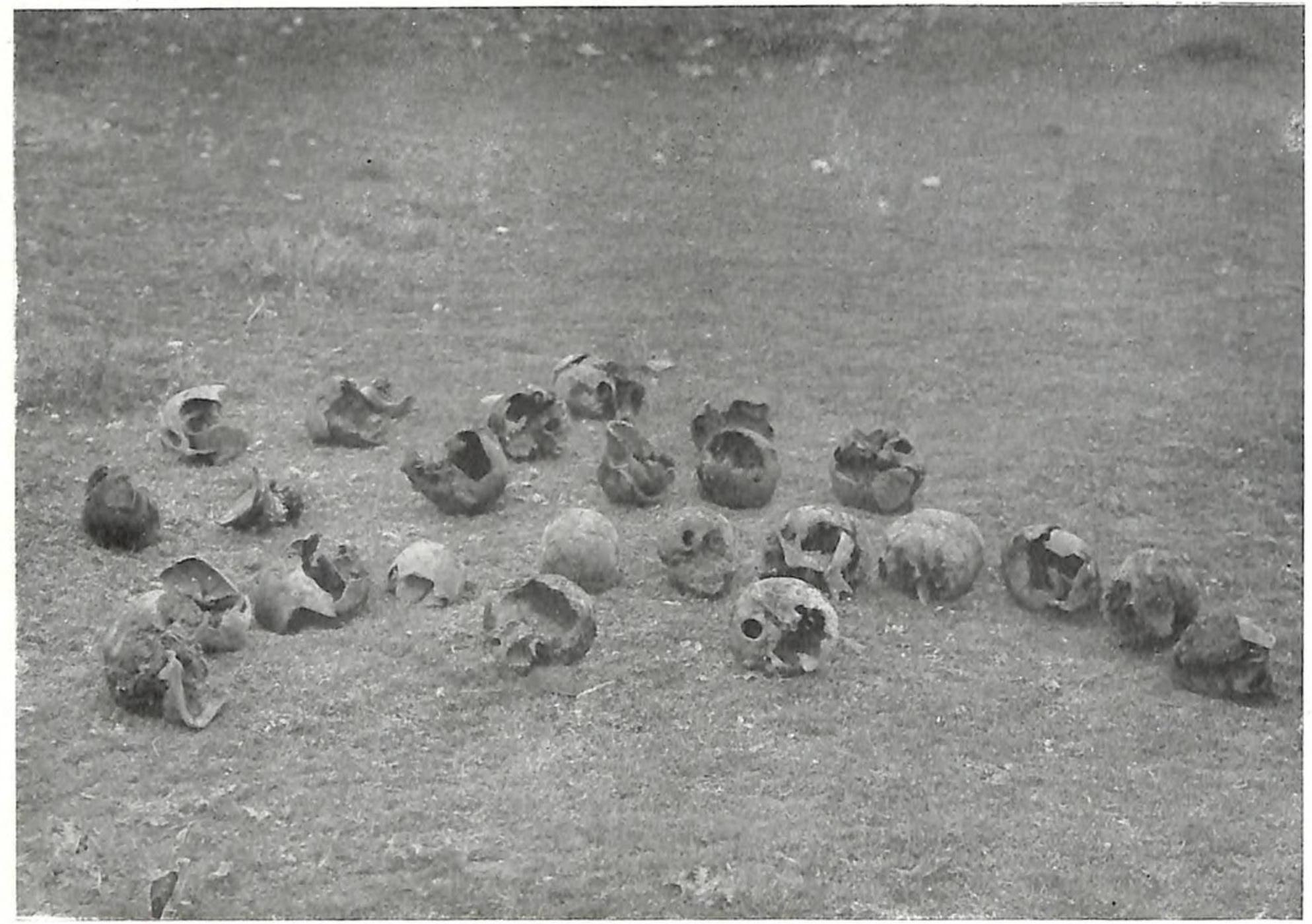 Remains of sick Serbian soldiers taken from the Štip hospital, and executed by the Bulgarian army outside of Ljuboten (26 October 1915).